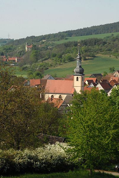 Unterwaldbehrungen, parish church of St. Lawrence